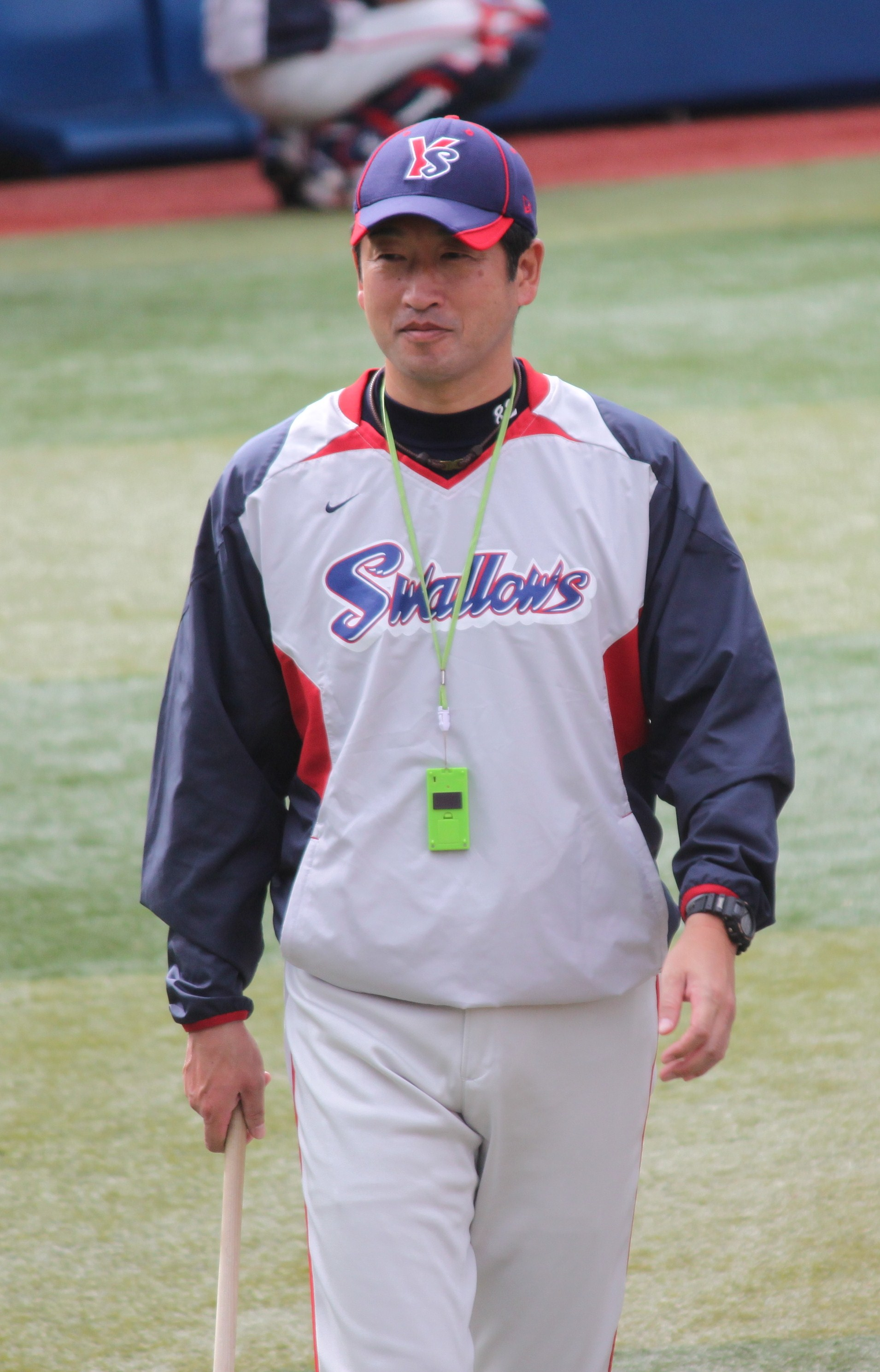 Shinichi Sato, coach of the Tokyo Yakult Swallows, at Yokohama Stadium.